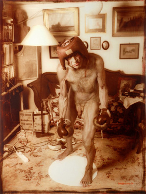 The Boxer no. 3